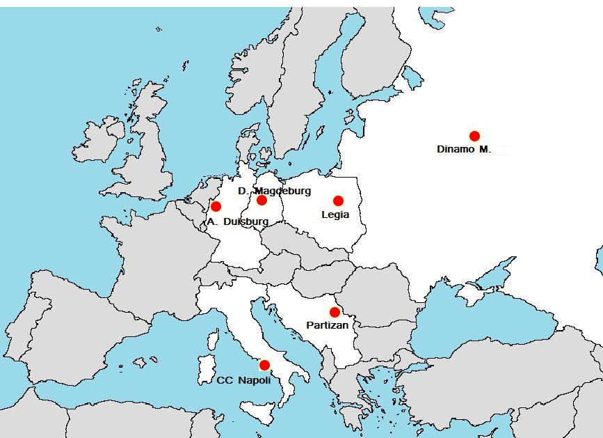 LEN Champions League 1963-1964 geographic distribution.